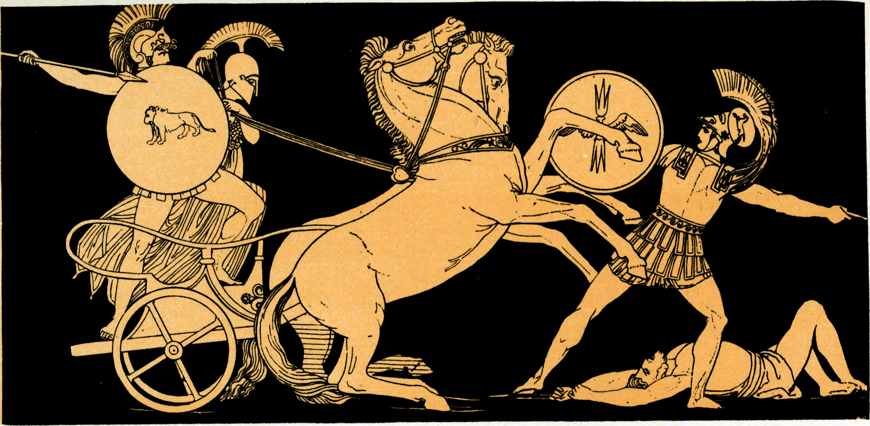 Diomed casting his spear against Ares.